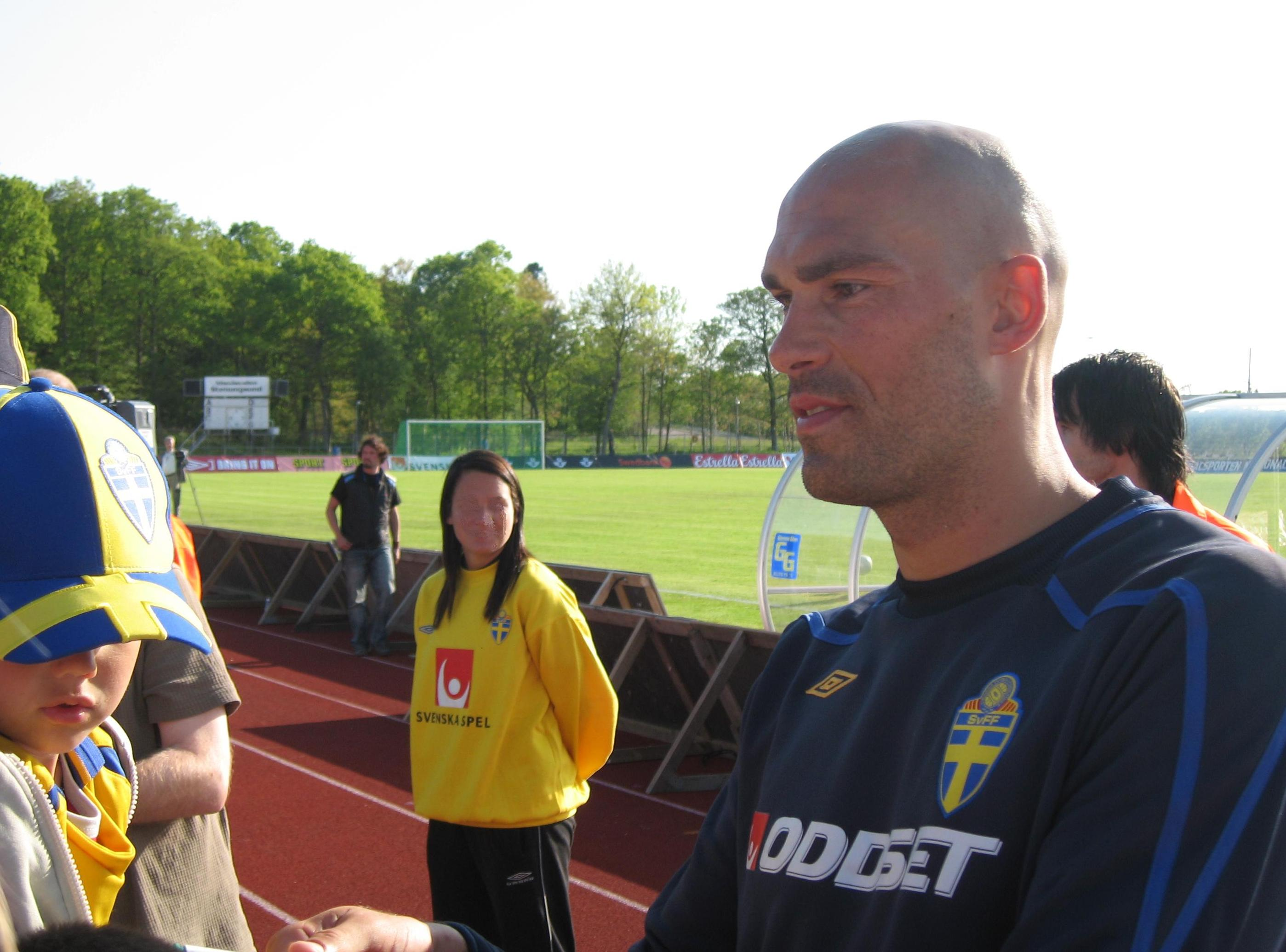 Daniel Majstorović at the Swedish national team's training camp at Nösnäsvallen in Stenungsund (Sweden), a few weeks before Euro 2008.